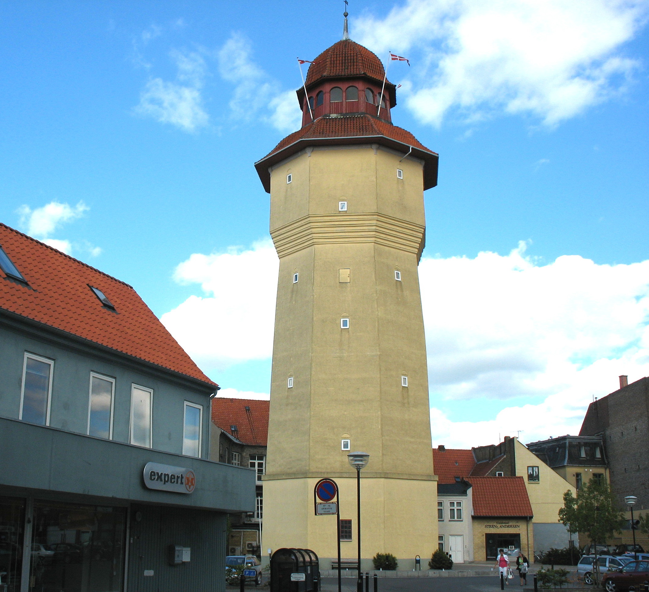 The old water tower of the town "Nykøbing Falster" located on the island Falster in east Denmark.